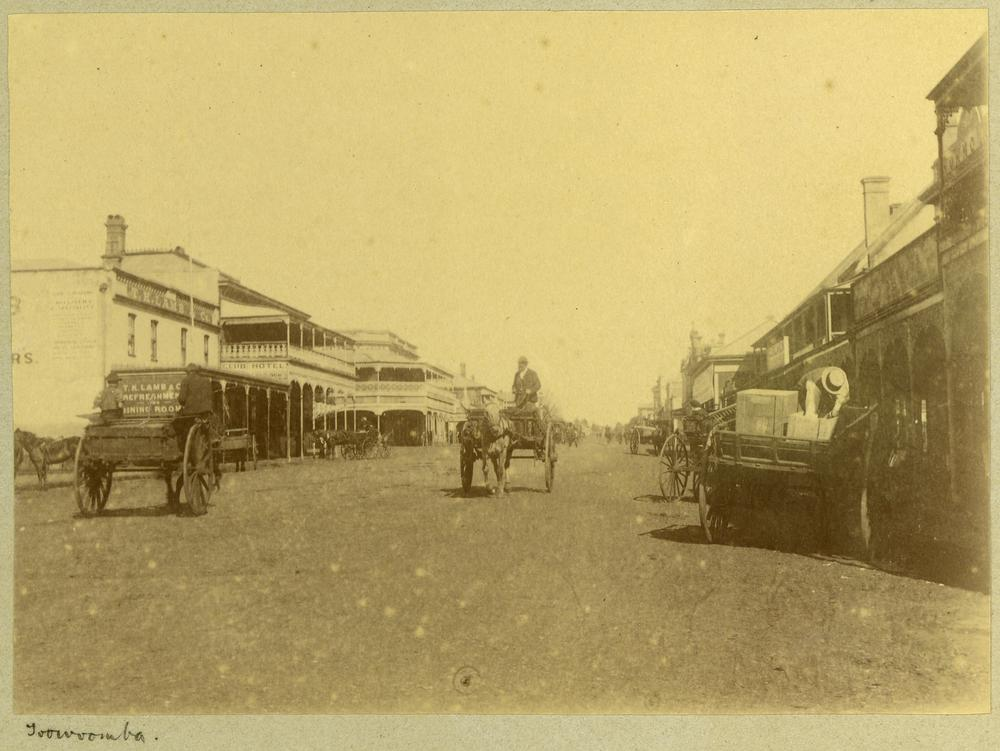 A view of the main street of Toowoomba in 1897. Picture Queensland Accession Number 6881. This item is held at the John Oxley Library, State Library of Queensland